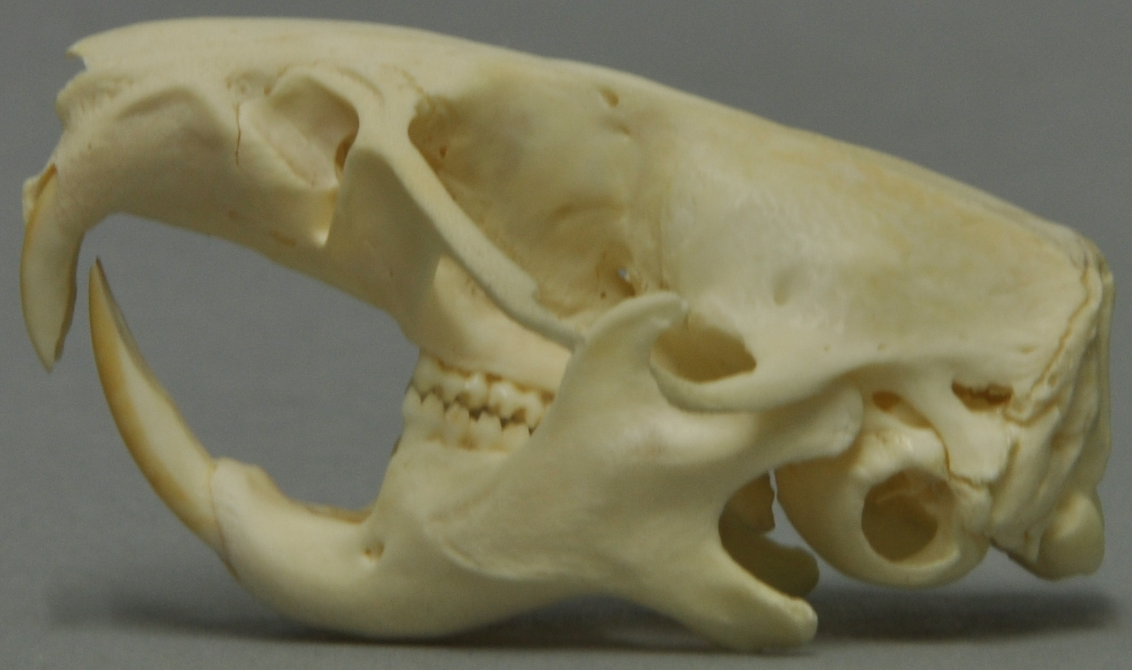 European hamster Cricetus cricetus, skull, Coll. Museum Wiesbaden